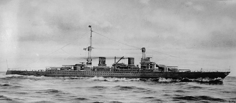 "Artwork by F. Muller, circa 1919, depicting the definitive design for these ships, whose construction was cancelled under the Washington Naval Limitations Treaty of 1922."